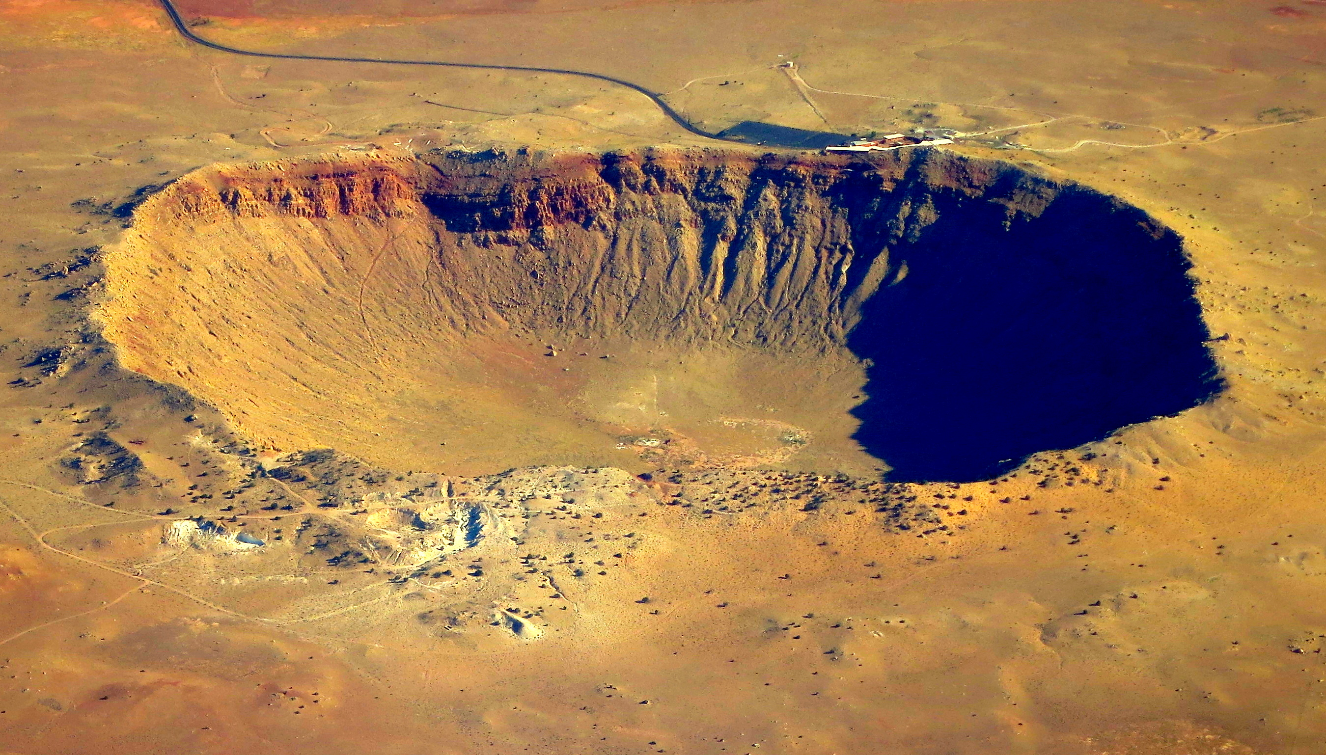 For Memorial Day, the B612 Foundation took a trip to the bottom of the best preserved meteorite crater on Earth. The foundation, named after the asteroid of Le Petit Prince, seeks to detect and divert devastating asteroids. Meteor Crater formed in a fraction of a second as 175 million tons of limestone and bedrock were uplifted, forming the mile-wide crater rim in the formerly flat terrain. The meteorite was only 150 ft. wide. For a sense of scale, if this hit Kansas City, the blast radius would take out the entire city.